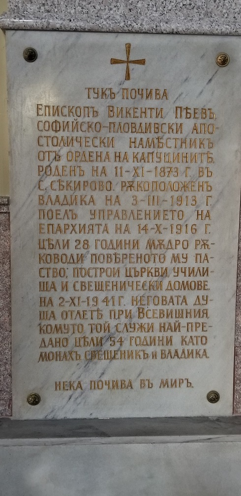 Tomb of bishop Vikenti Peev